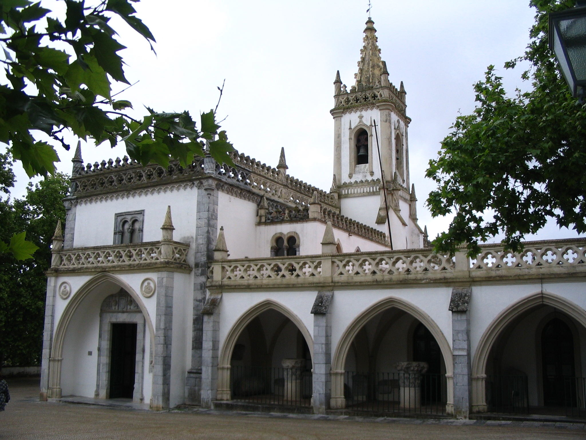 Beja : Nostra_Senora_de_Conceiçao